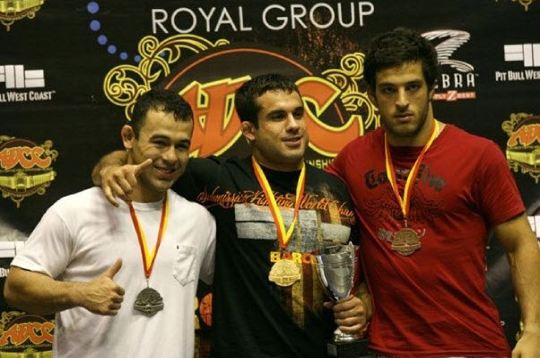 ADDC 2009